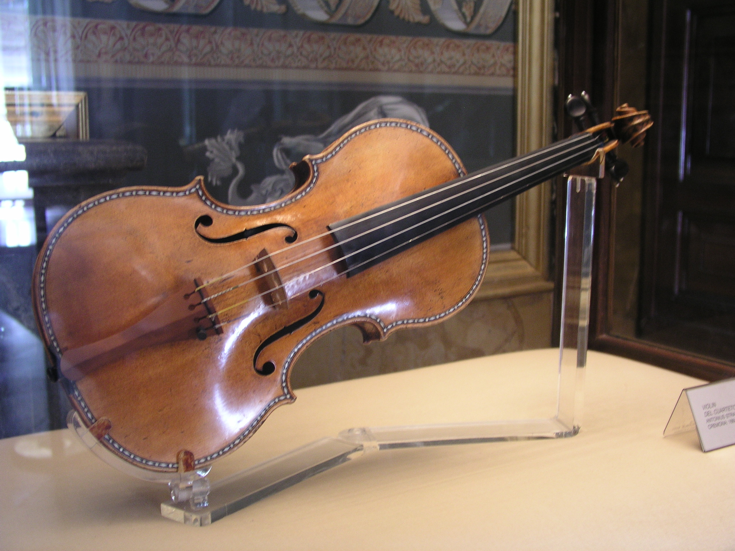 Spanish Stradivarius II of c. 1687, on exhibit at Palacio Real de Madrid